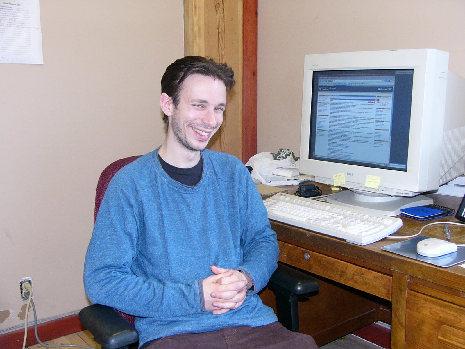 National Capital FreeNet SysAdmin Andre Dalle